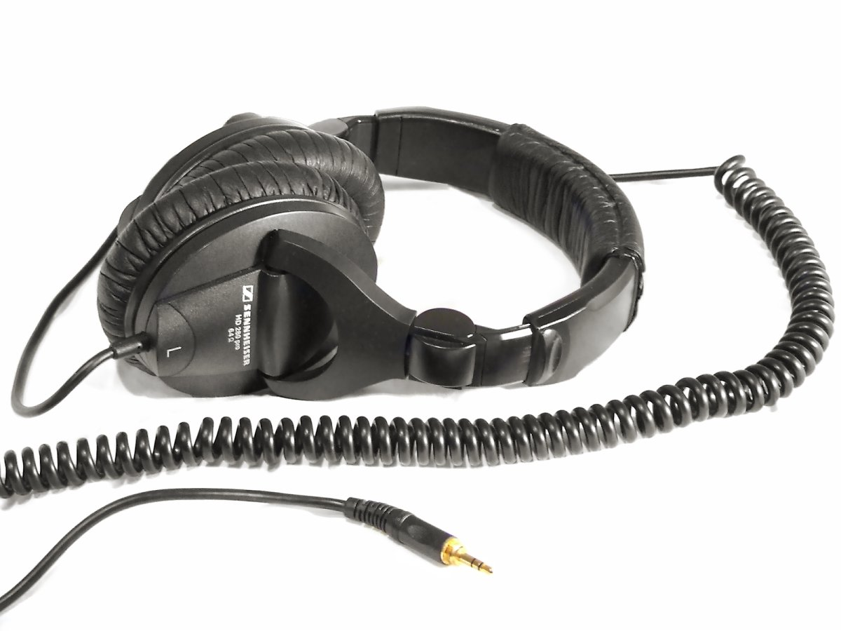 Sennheiser-HD280pro headphones